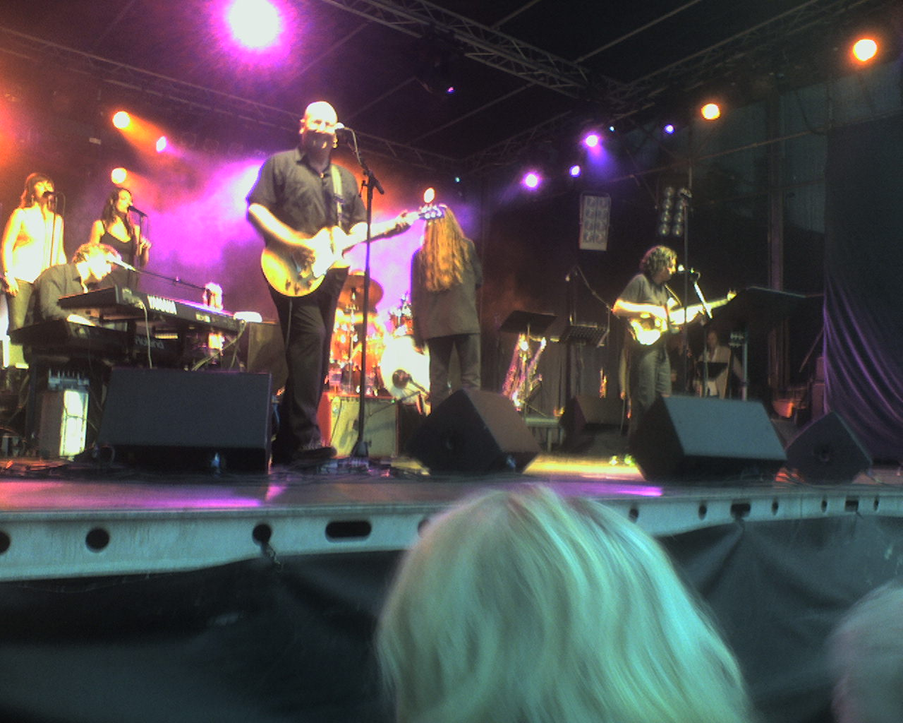 Dance with a Stranger on a reunion concert in Kristiansund July 3, 2005. Picture taken by User:Opus.